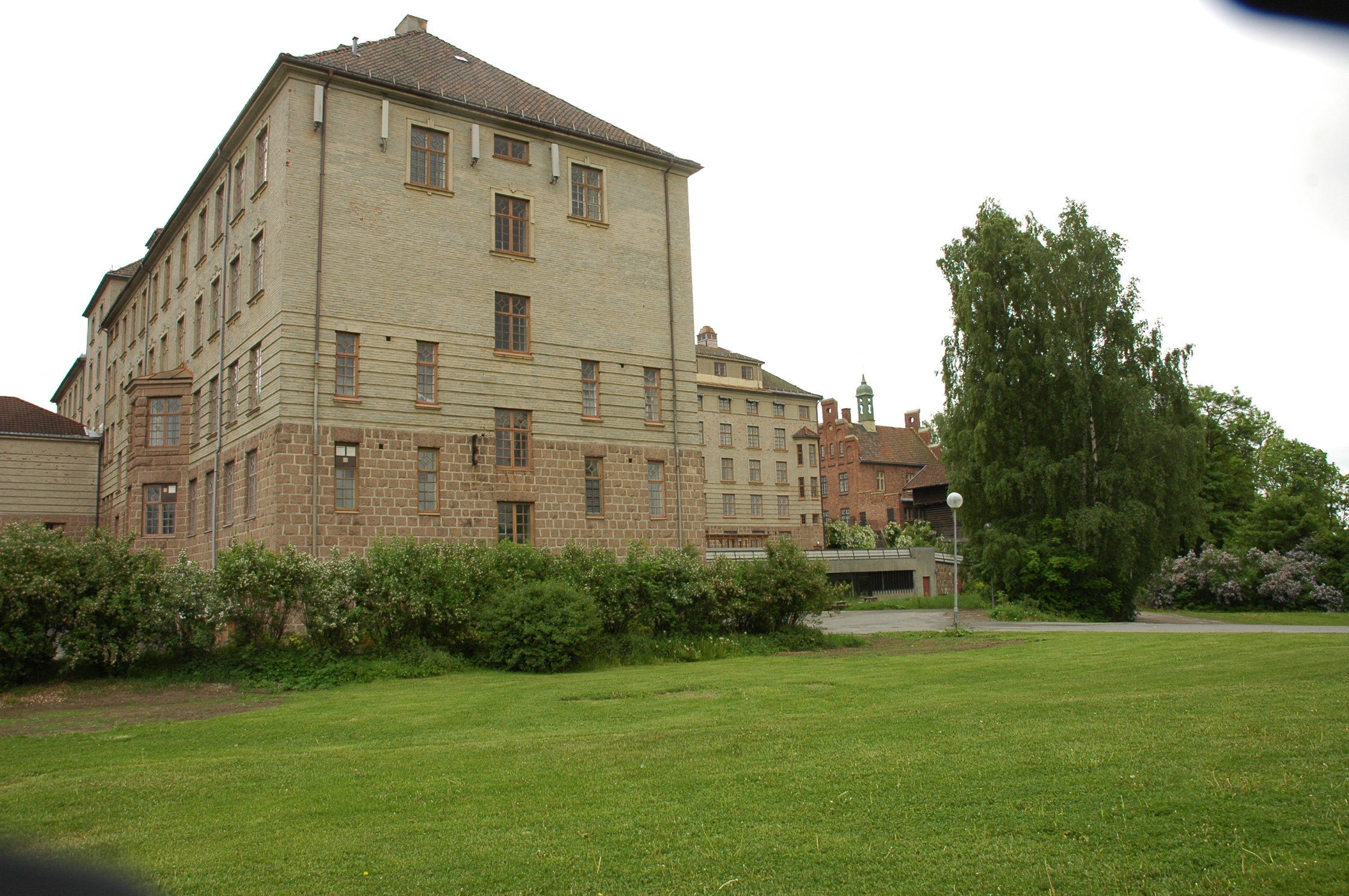 The "House-Wife" shool at Ringstabekk, Baerum in Norway Husmorskolen på Ringstabekk